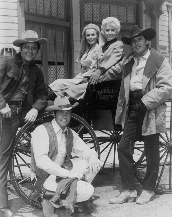 Cast photo from the television Western The Big Valley. From left: Richard Long, Linda Evans, Barbara Stanwyck, Peter Breck, and Lee Majors by wagon wheel.